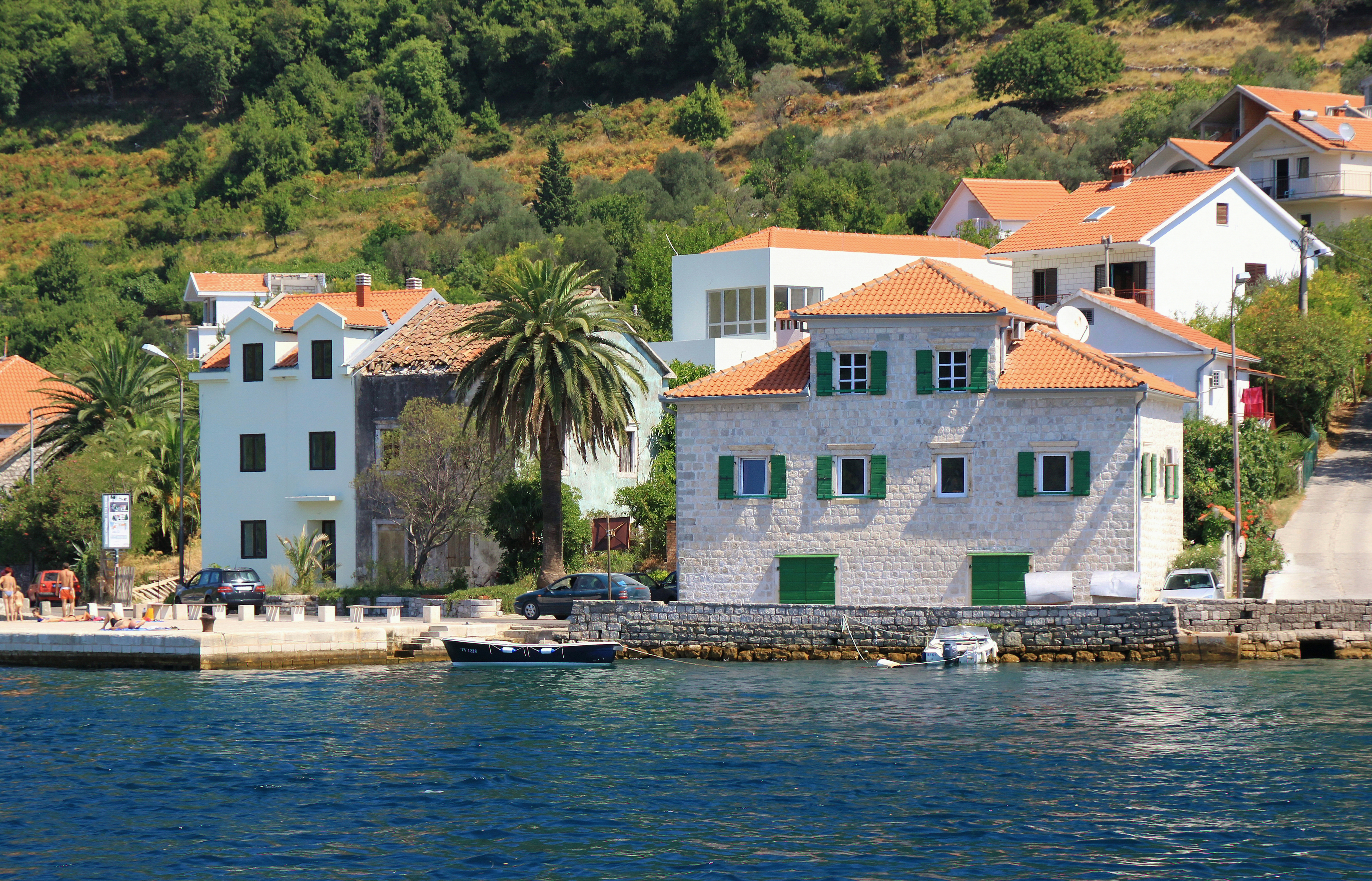 View of the village. Lepetane, Montenegro.